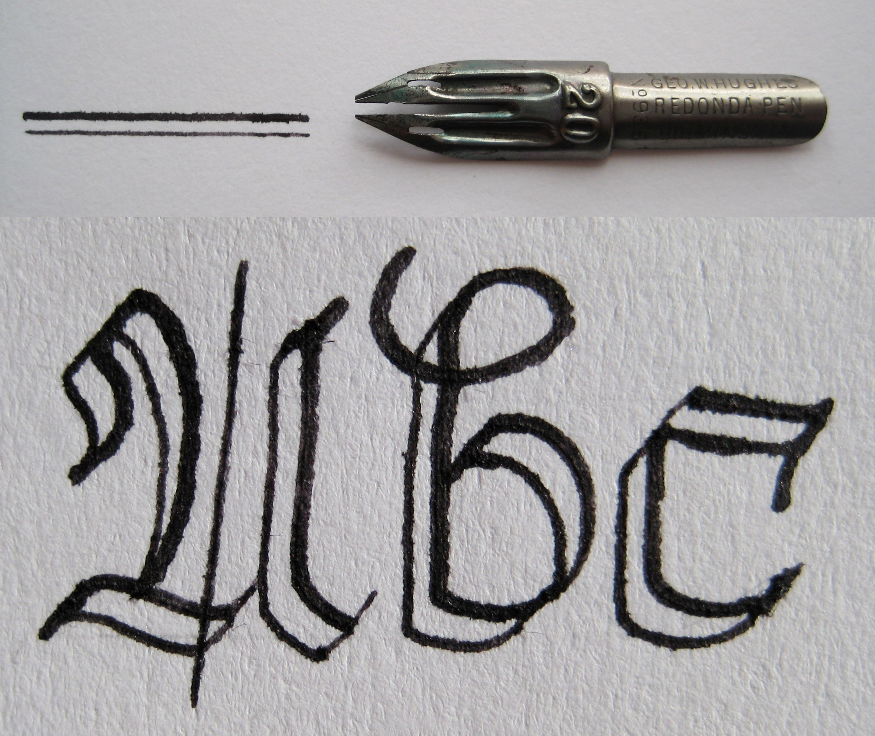 Scroll nib with a stroke and writing sample